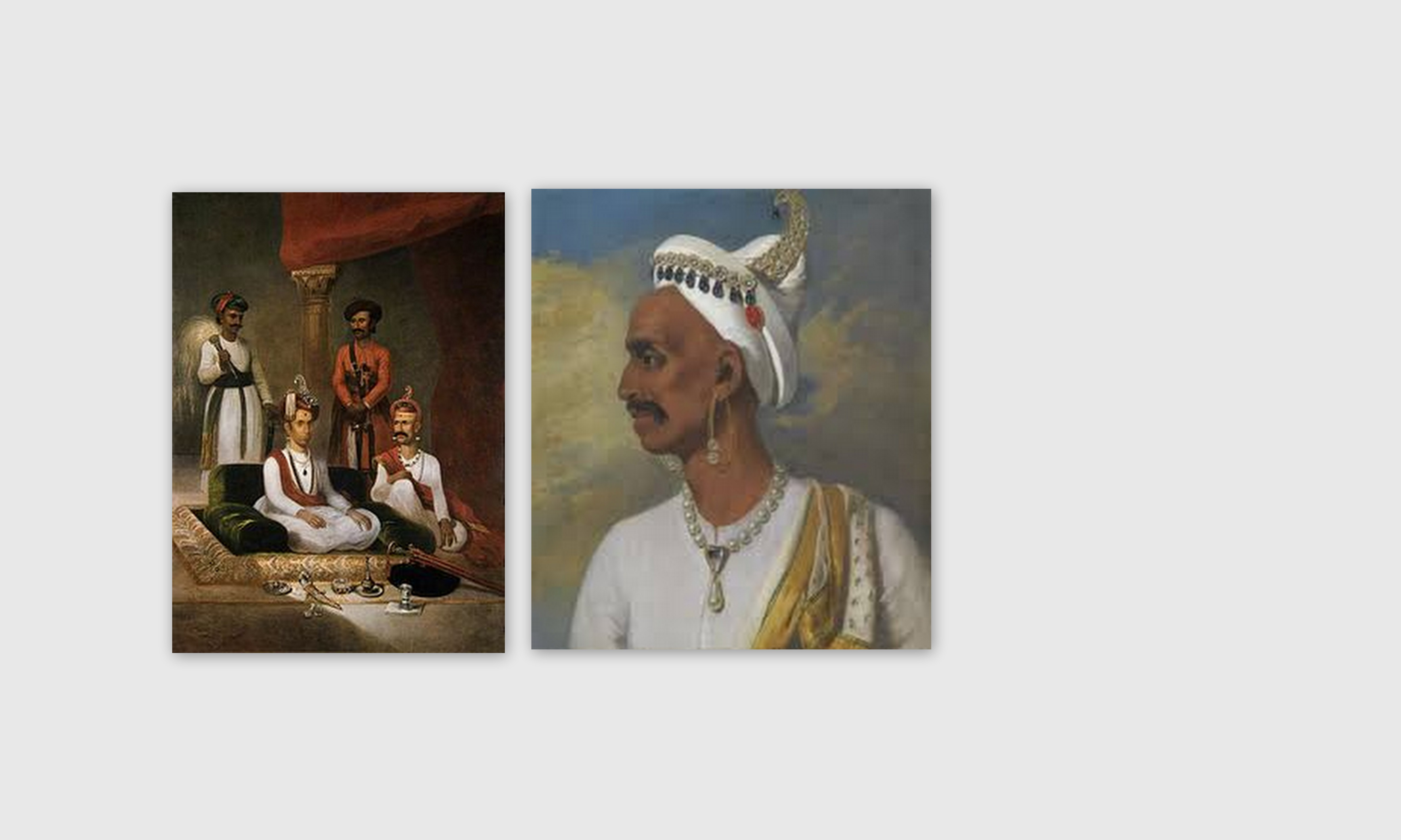 picture of Nana Fadnavis